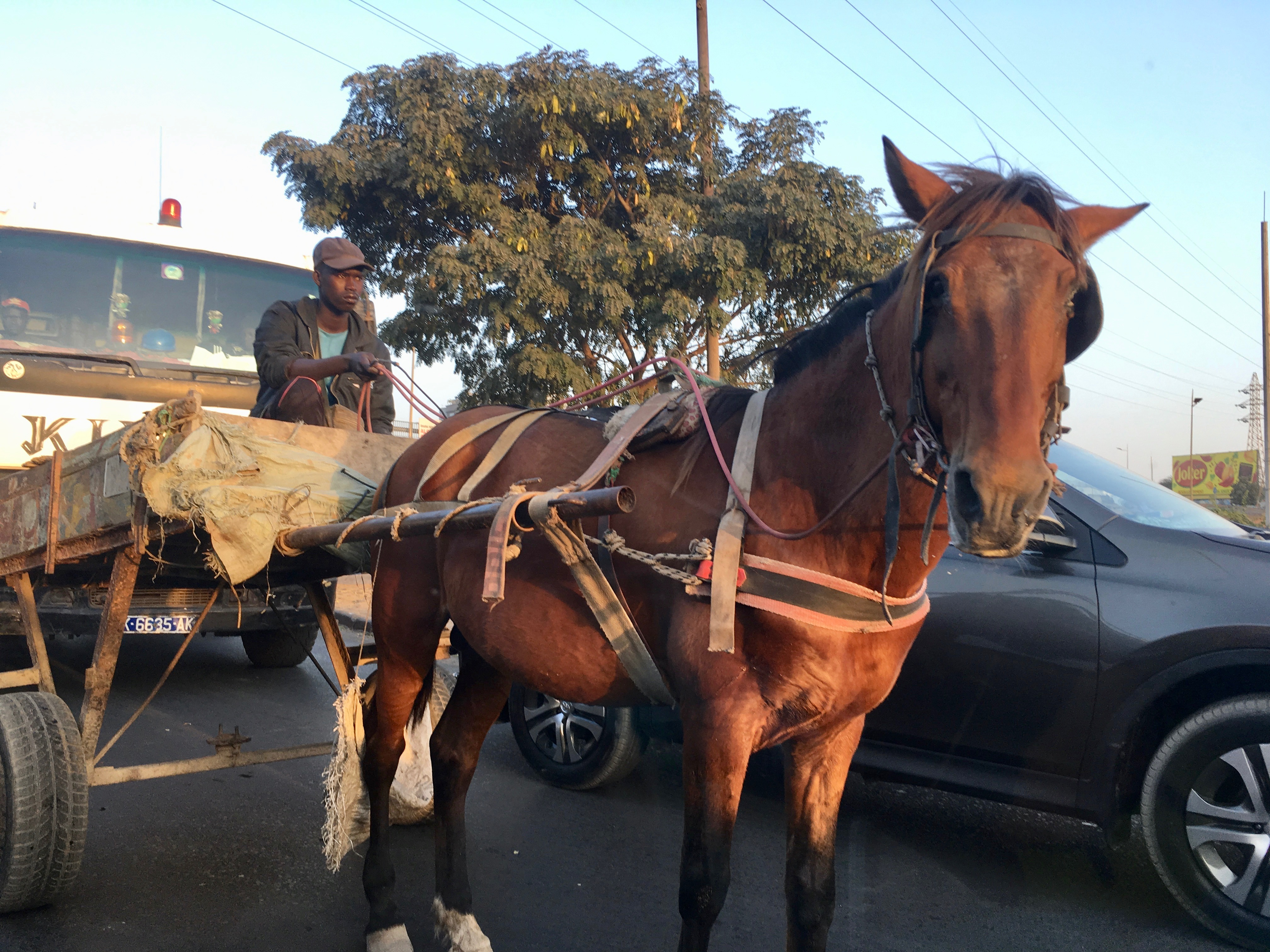 This picture was taken at the round point in Hann Maristes, Dakar. This is an image with the theme "Africa on the Move or Transport" from: Senegal